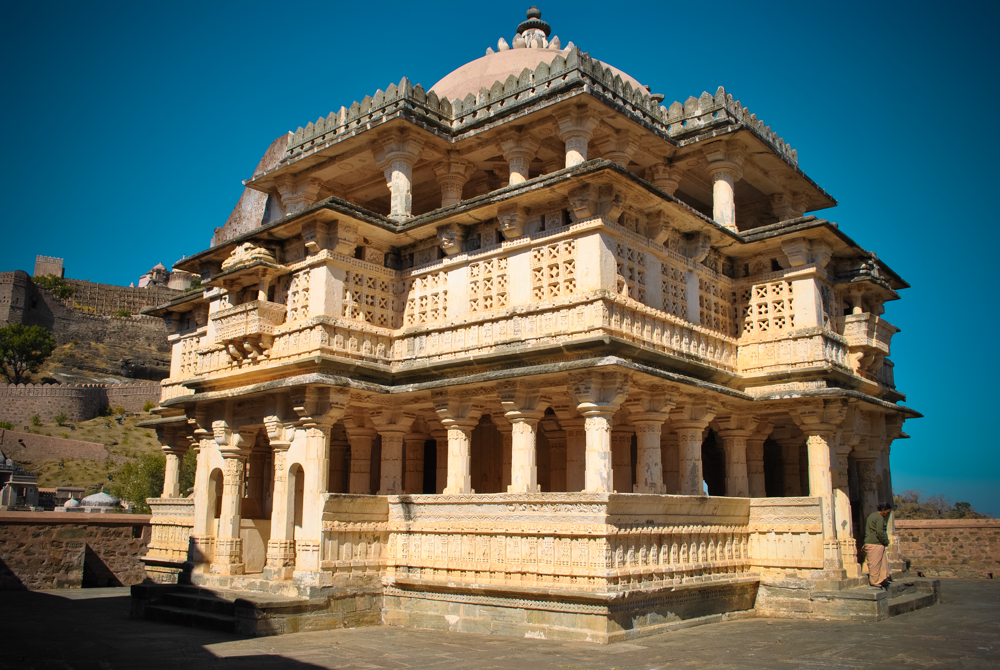 Rajasthan-Kumbhalgarh